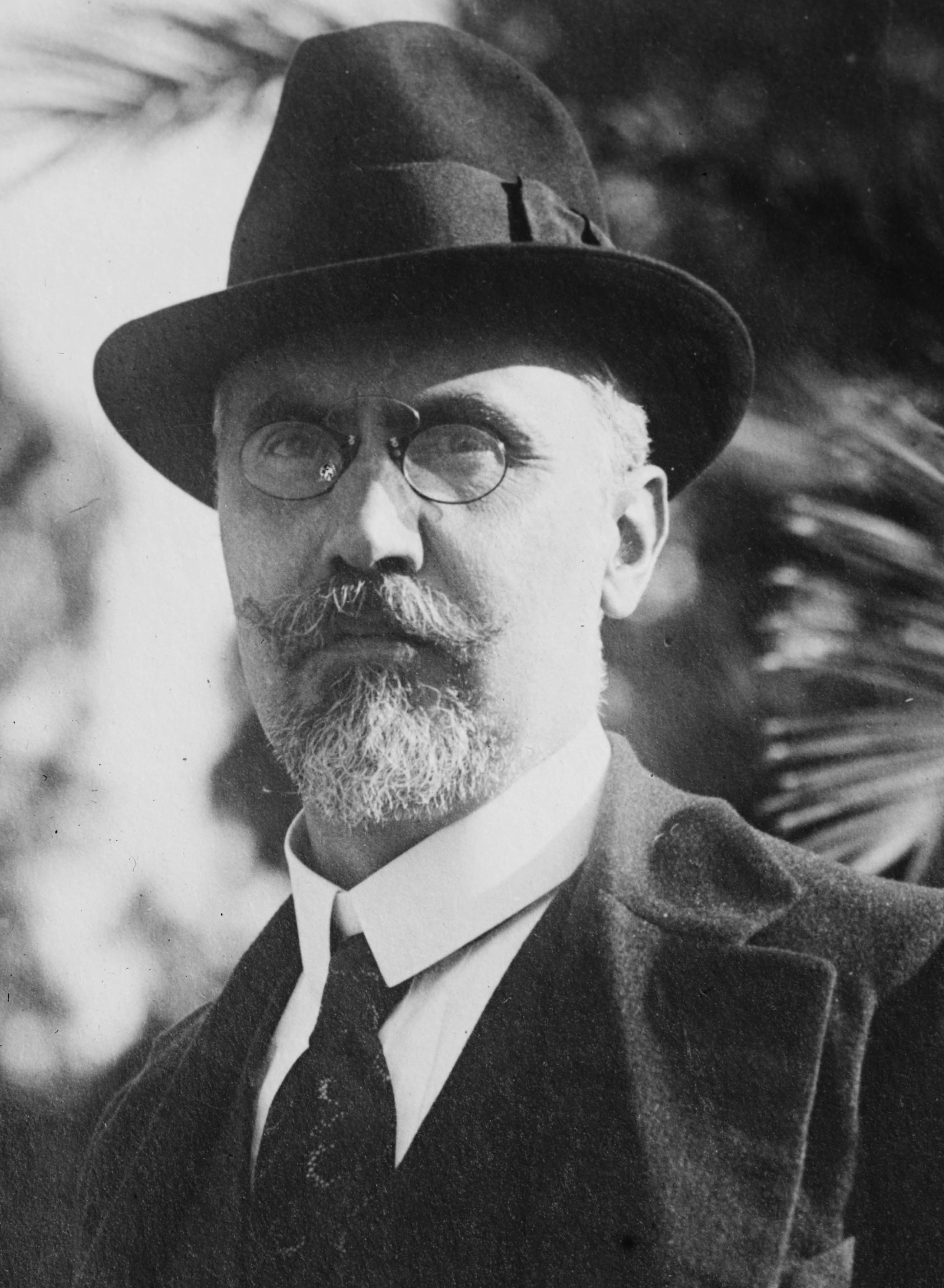 Ivanoe Bonomi.